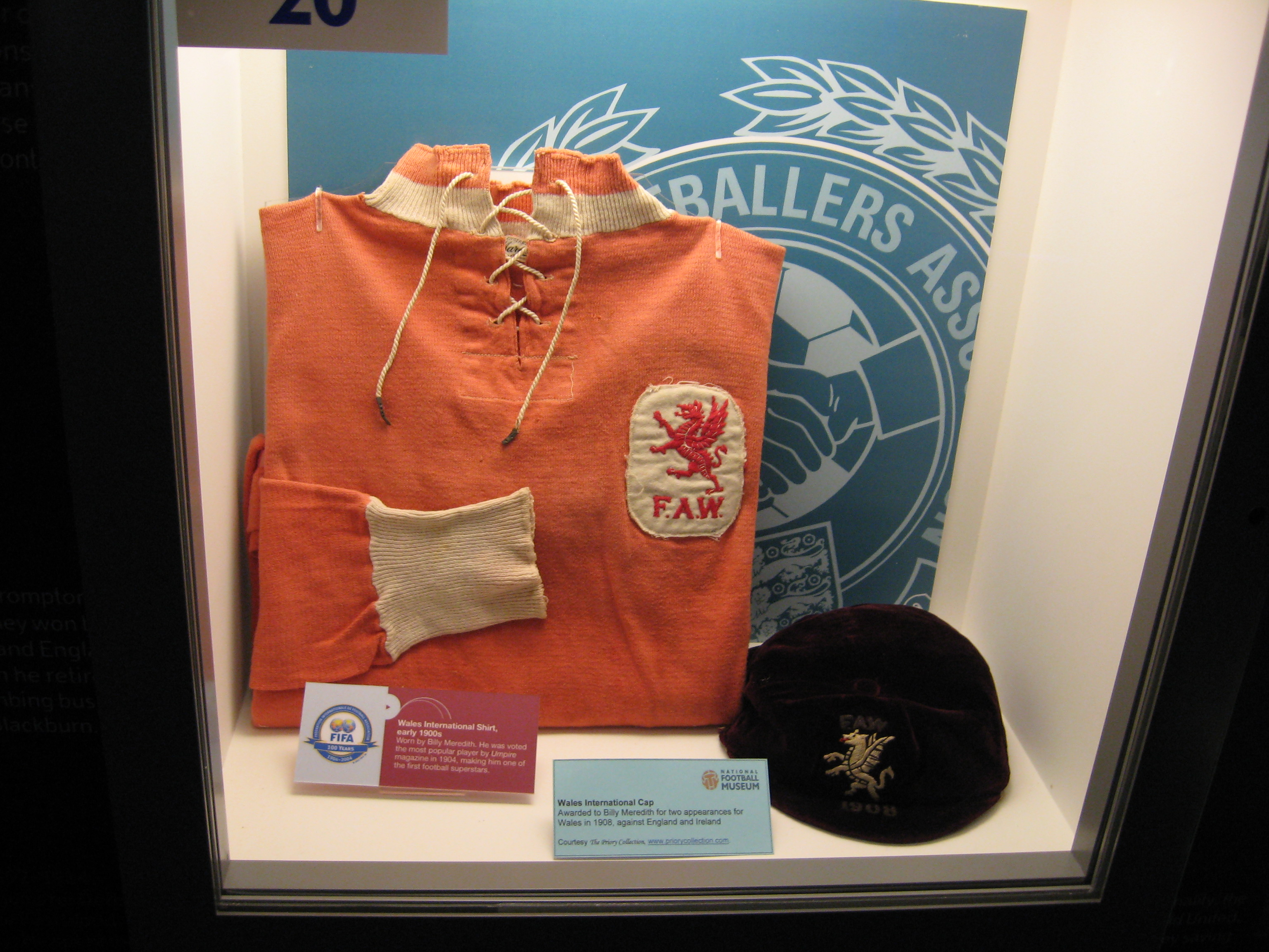 A Wales national team football shirt which was worn by Billy Meredith against England and Ireland in 1908, with Welsh cap. On display at the National Football Museum, Preston.